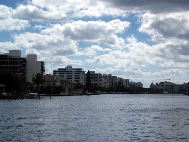 Highland Beach, Fl, seen on the left side of the canal, Boca Raton on the right. Taken by ReignMan, 2004.